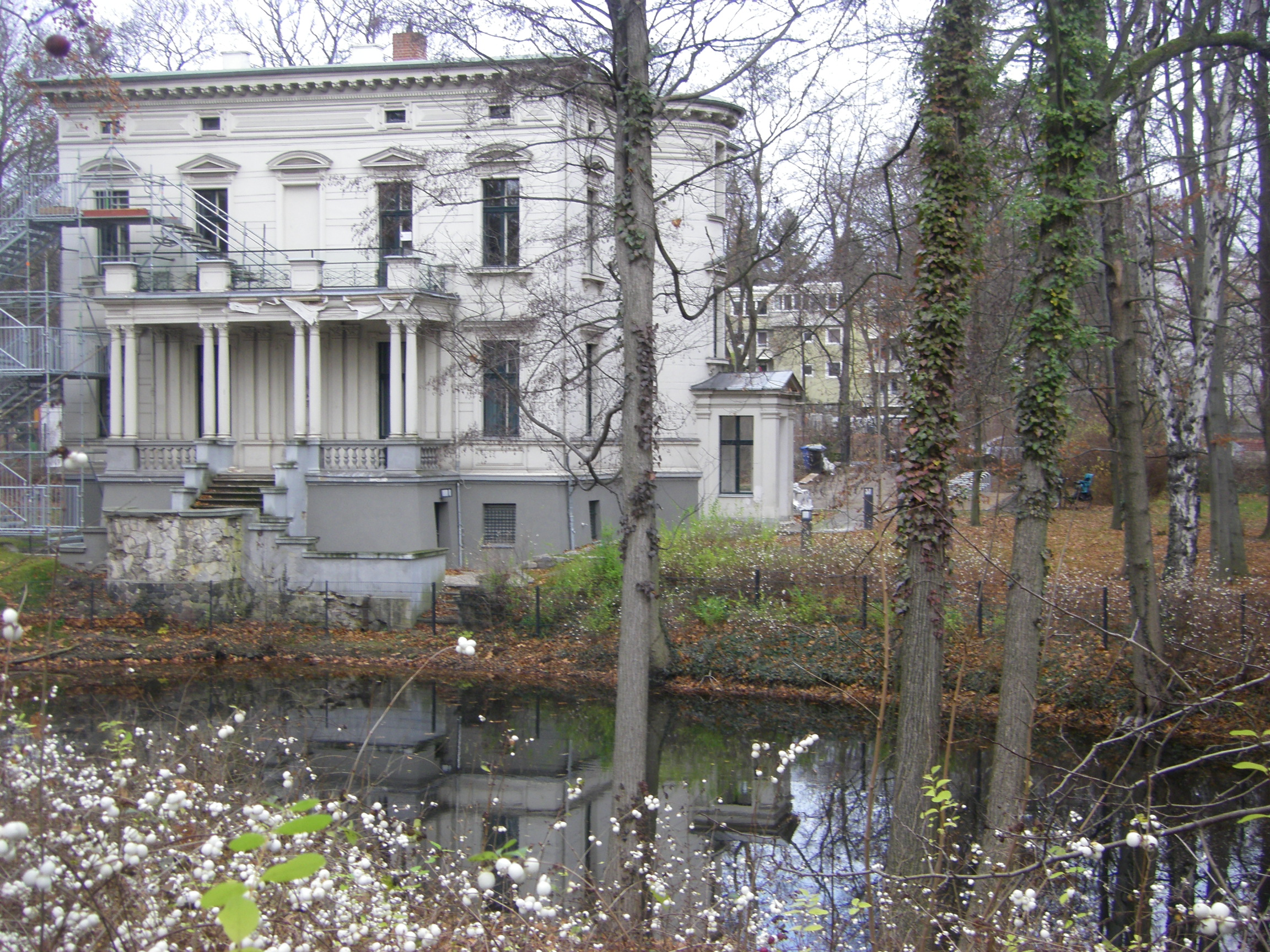 Berlin-Steglitz Villa Grabertstraße 4